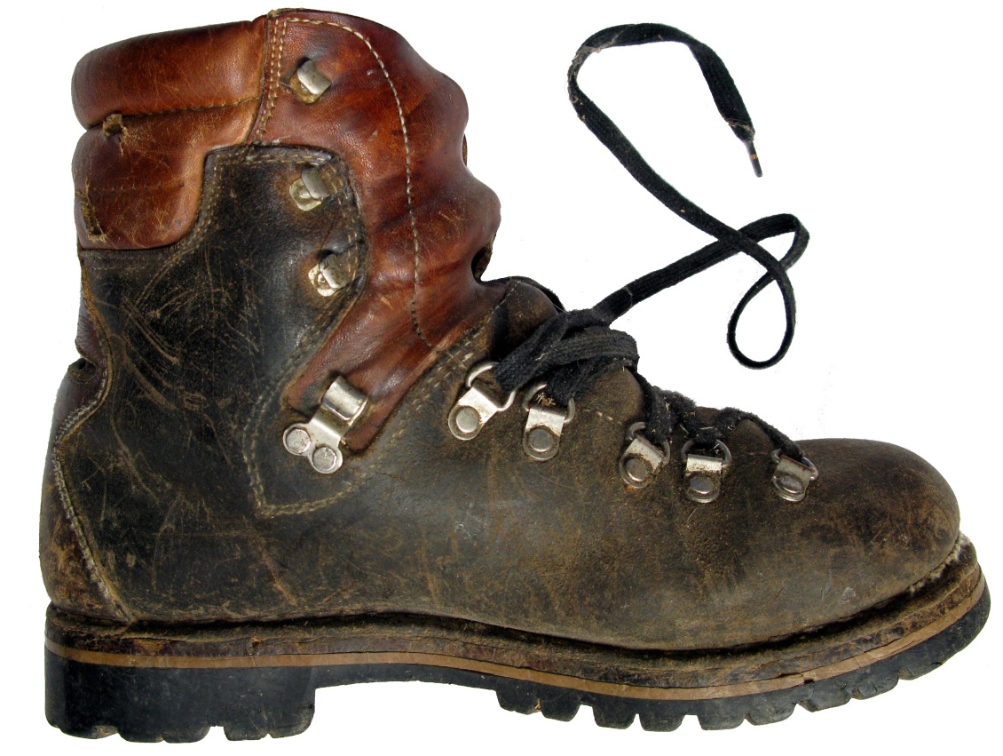 Mountaineering boot, leather, made in Austria / European Union